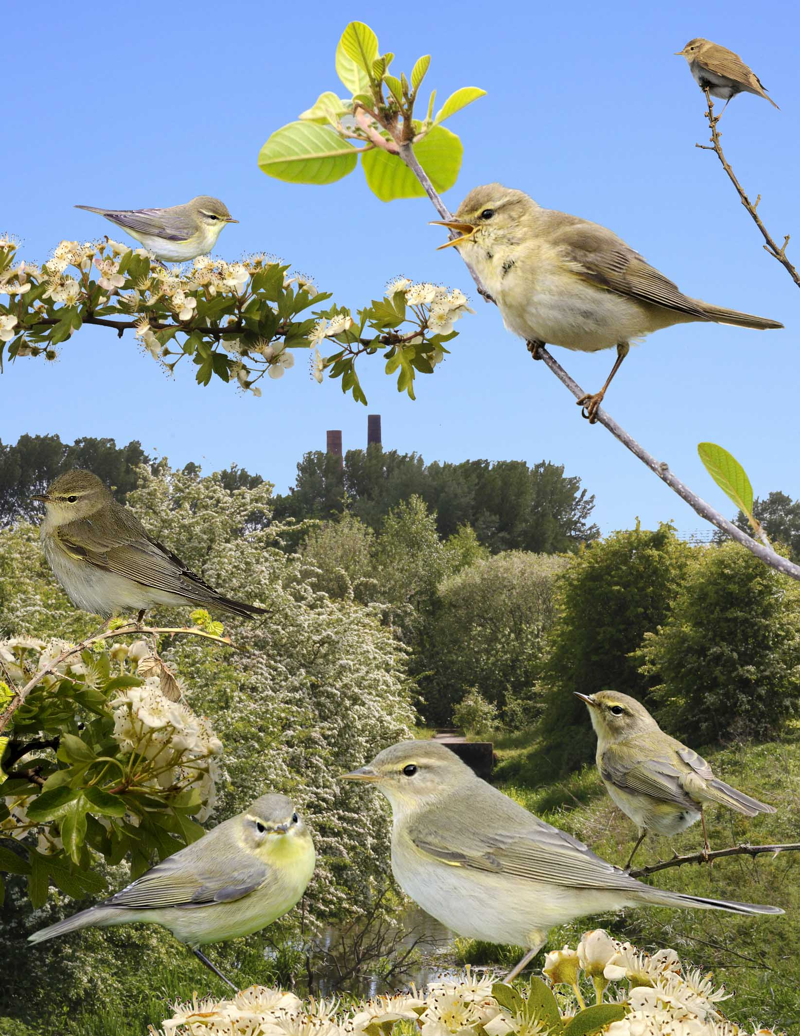 Willow Warbler from the Crossley ID Guide Britain and Ireland